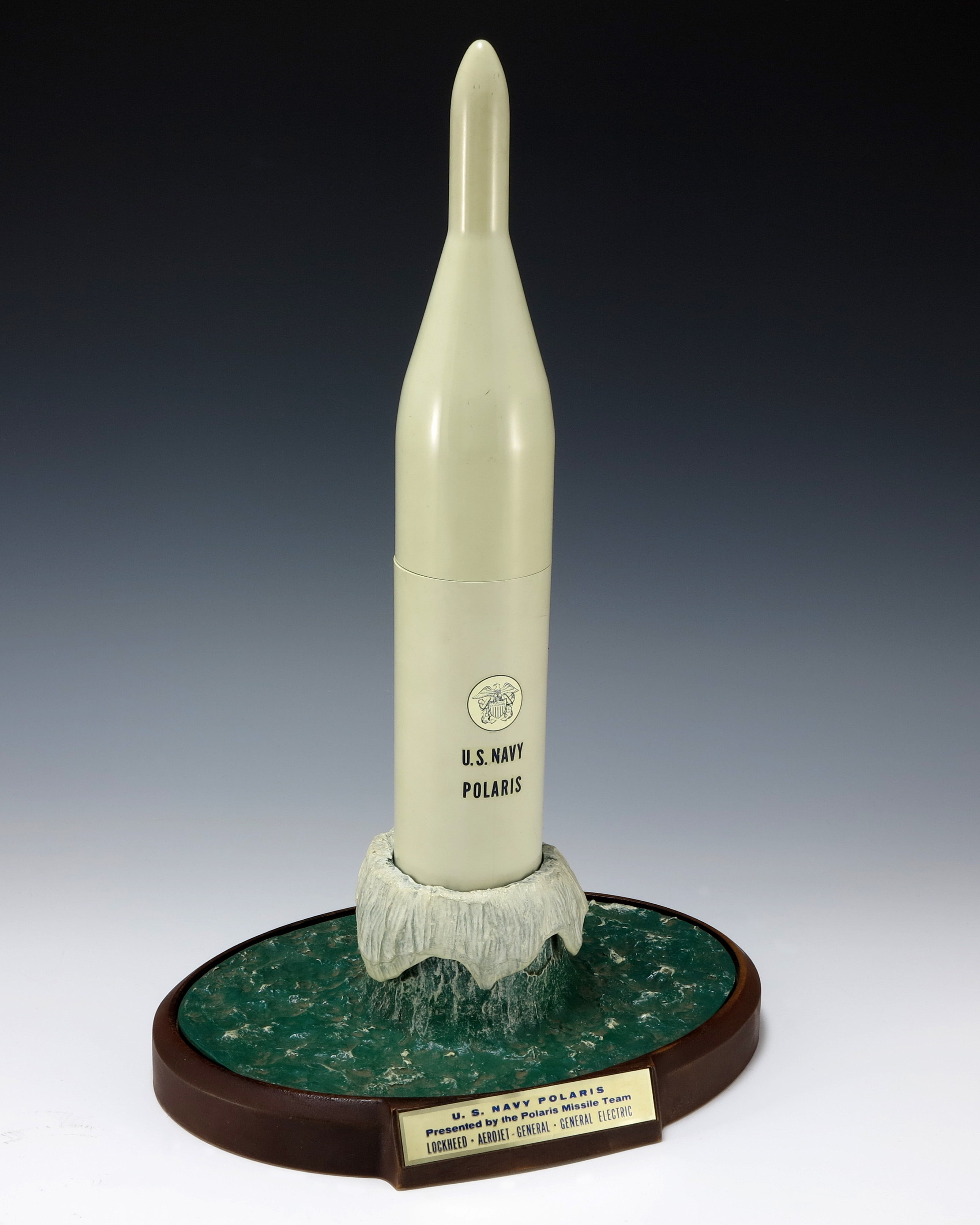 Plastic model of a launching U.S. Navy Polaris missile in five parts. Plaque on the front reads, “U.S. Navy Polaris Presented by the Polaris Missile Team Lockheed Aerojet-General General Electric.” Congressman Gerald R. Ford was appointed to the Appropriations Subcommittee on Defense Spending in 1953, and made Chairman of the Army Panel. He observed several experimental missile tests, including those for the early NIKE program. Ford became the ranking Republican on the Defense Appropriations Subcommittee in 1961. Gift of Appropriations Committee Subcommittee on Defense.